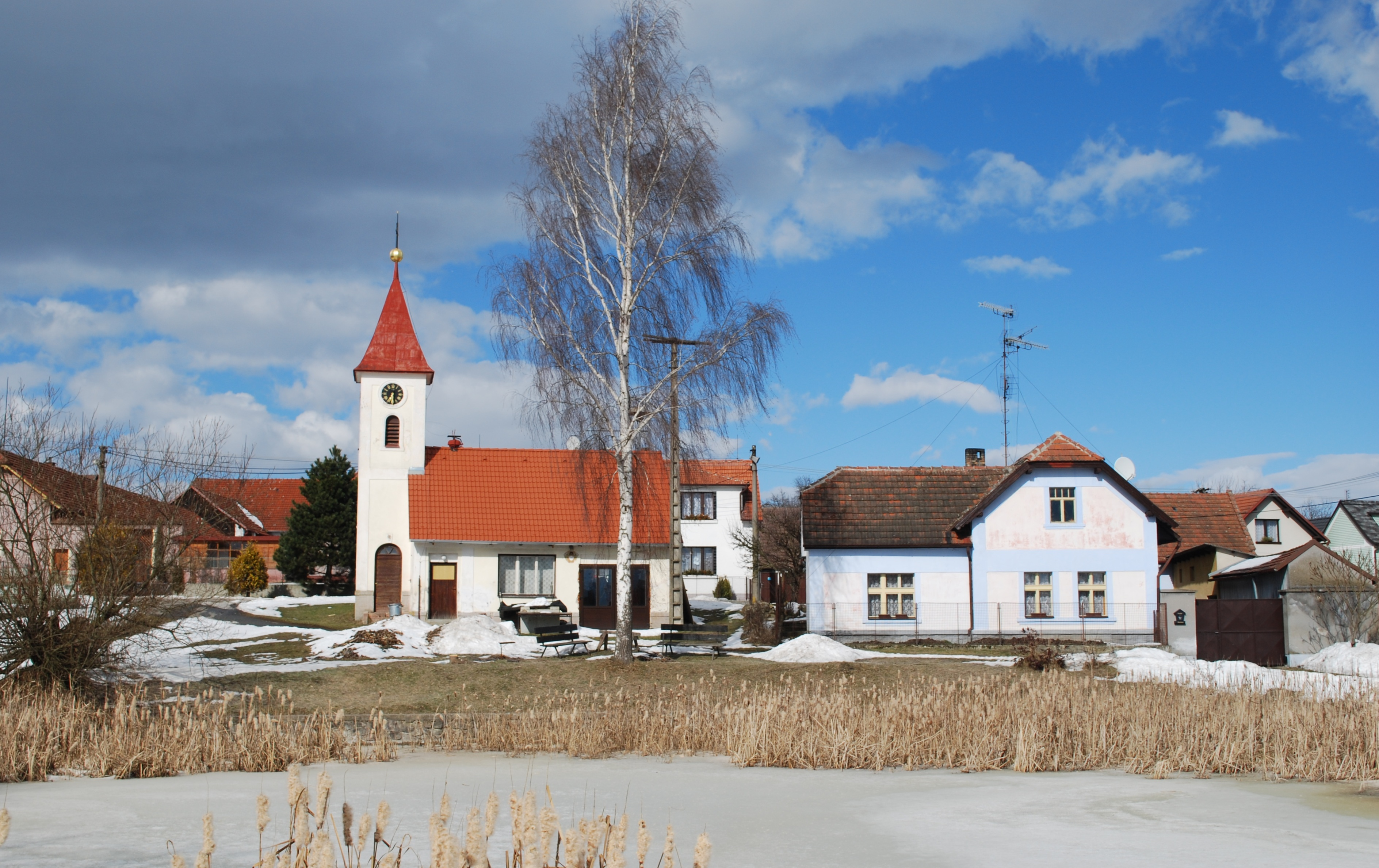 Čenkov village, part of Malšice municipality in Tábor District, Czech Republic. Chapel. This photograph was taken within the scope of the 'Czech Municipalities Photographs' grant. - OpenStreetMap(Info)